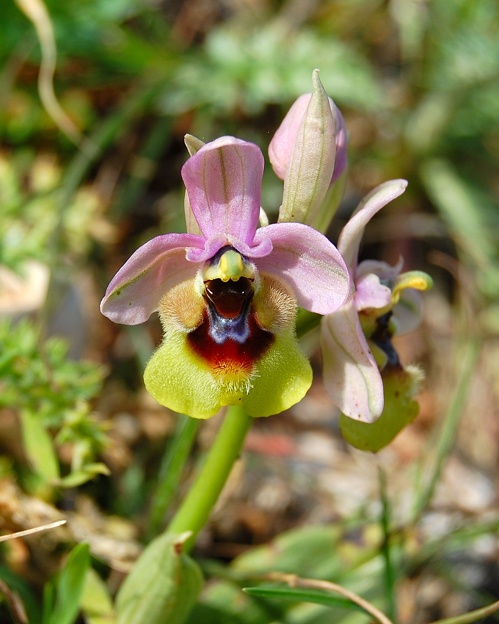 Ophrys tenthredinifera Riserva dello Zingaro, Sicily